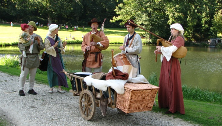 Picture of musical group acting as medieval musisians